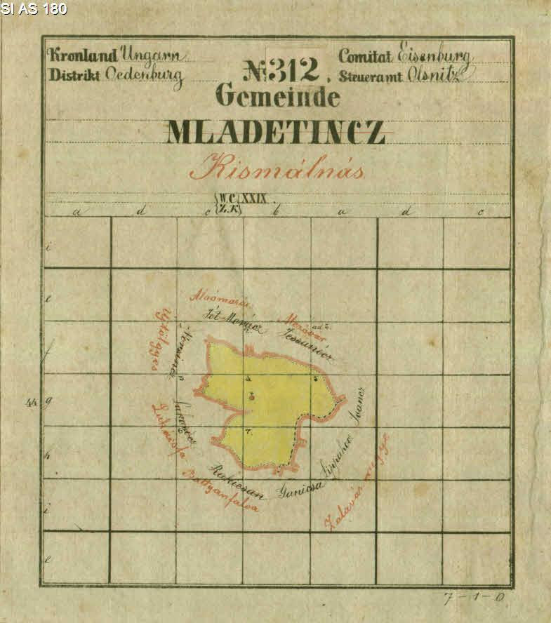 Map of Mlajtinci (old. prek./prekmurščina: Mladetinci, hung.: Kismálnás) from the 19th century